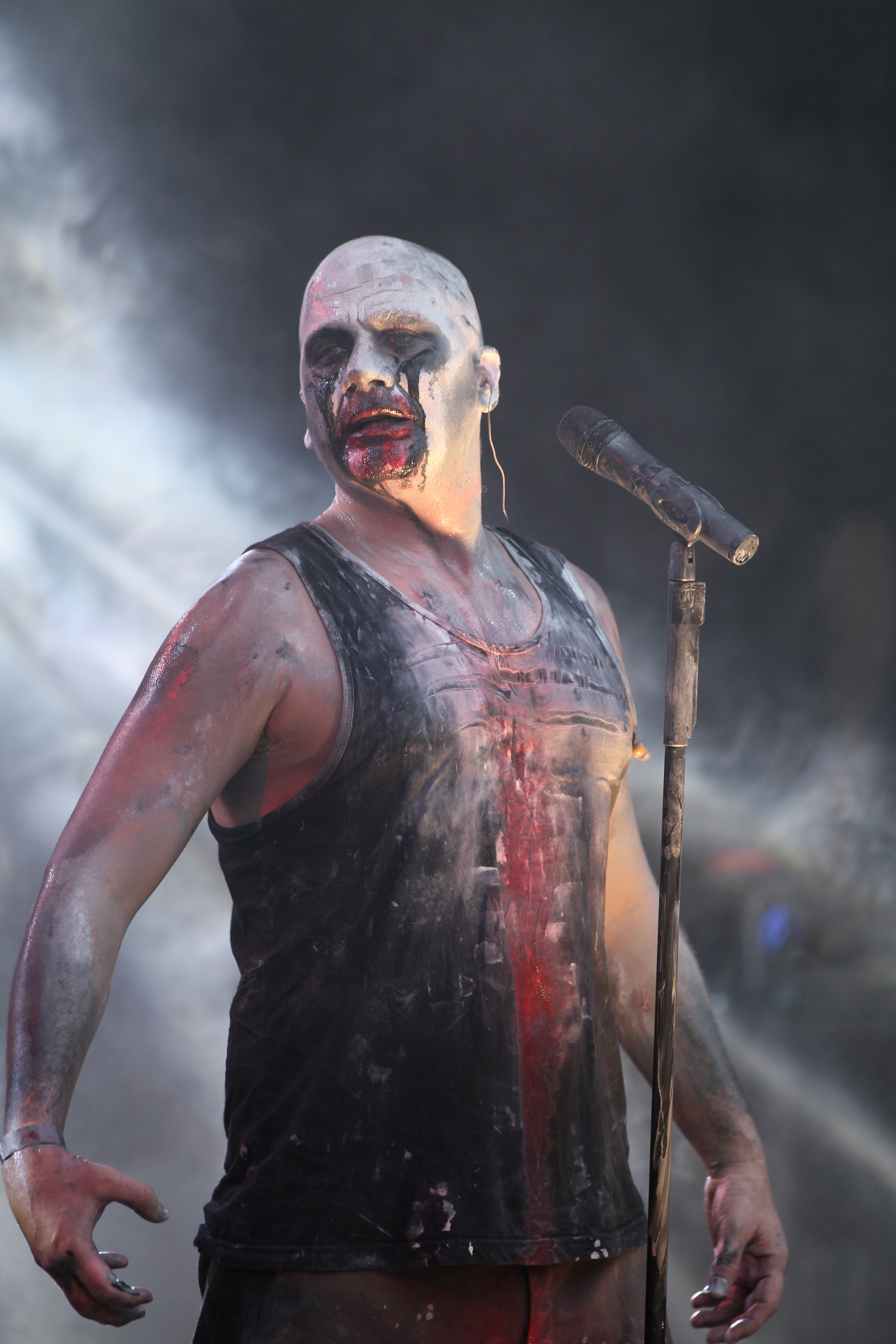 The German Neue Deutsche Härte band Ost+Front at the Nocturnal Culture Night 9 2014 in Deutzen/Germany